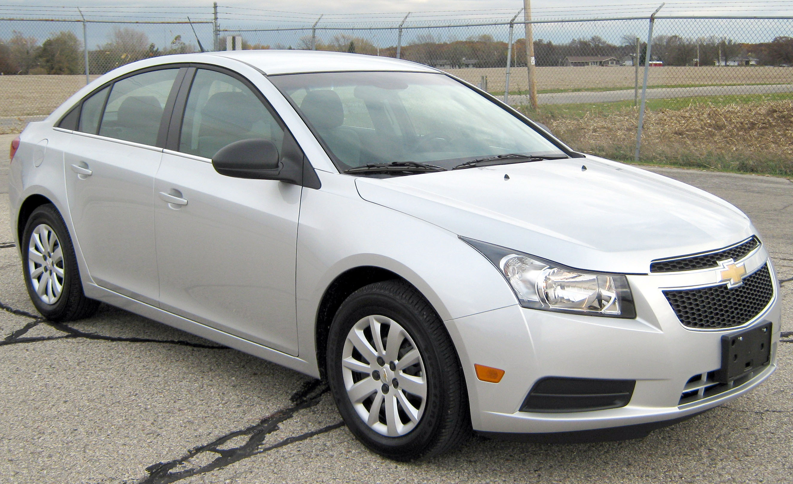 2011 Chevrolet Cruze photographed in USA.